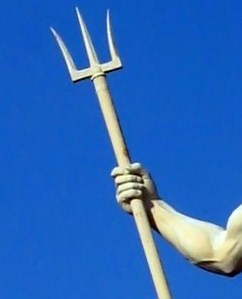 Trident from File:Poseidon sculpture Copenhagen 2005.jpg